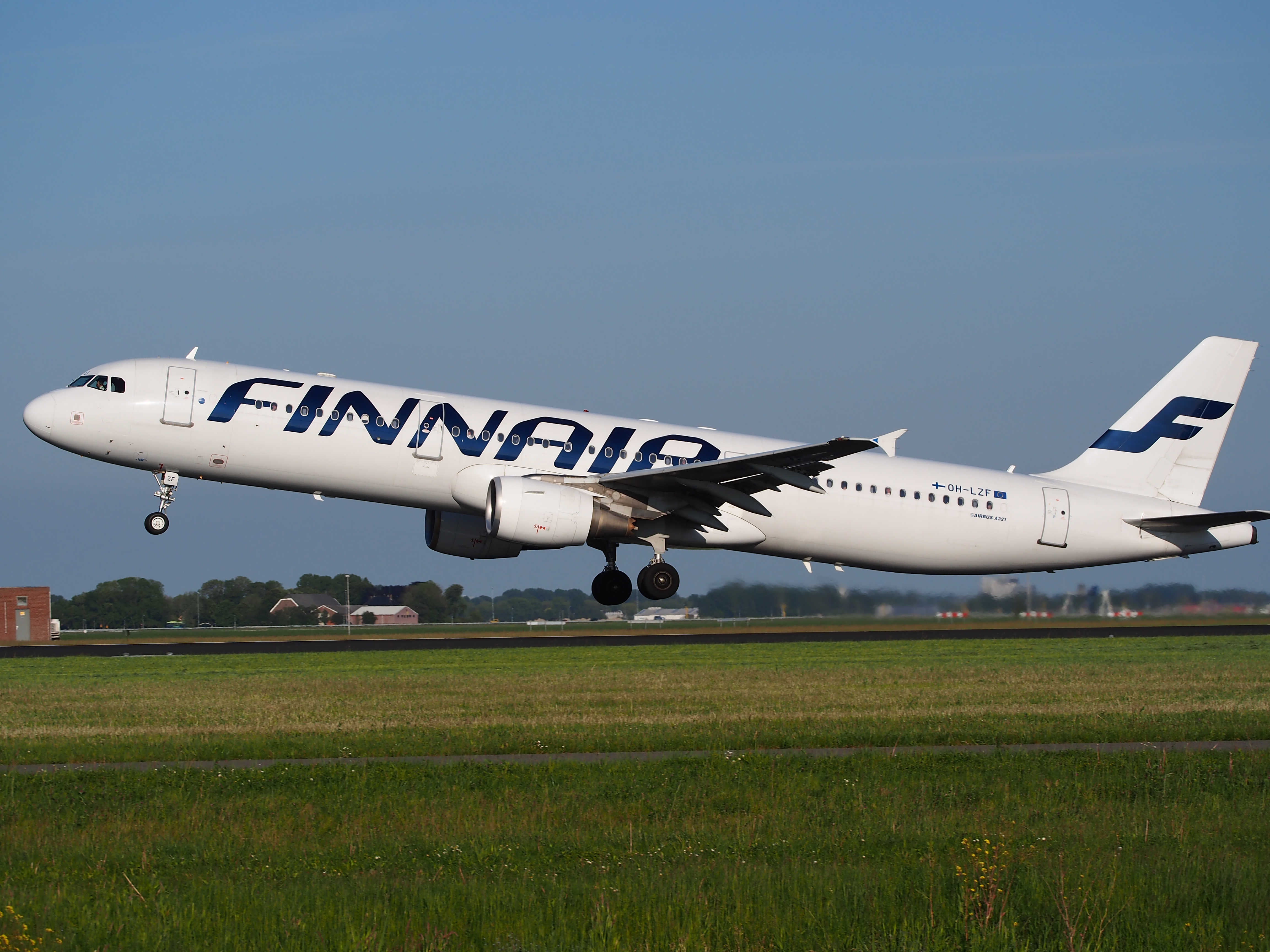 An Airbus A321-211 aircraft (OH-LZF) of Finnair at Amsterdam Airport Schiphol (AMS/EHAM), the Netherlands.